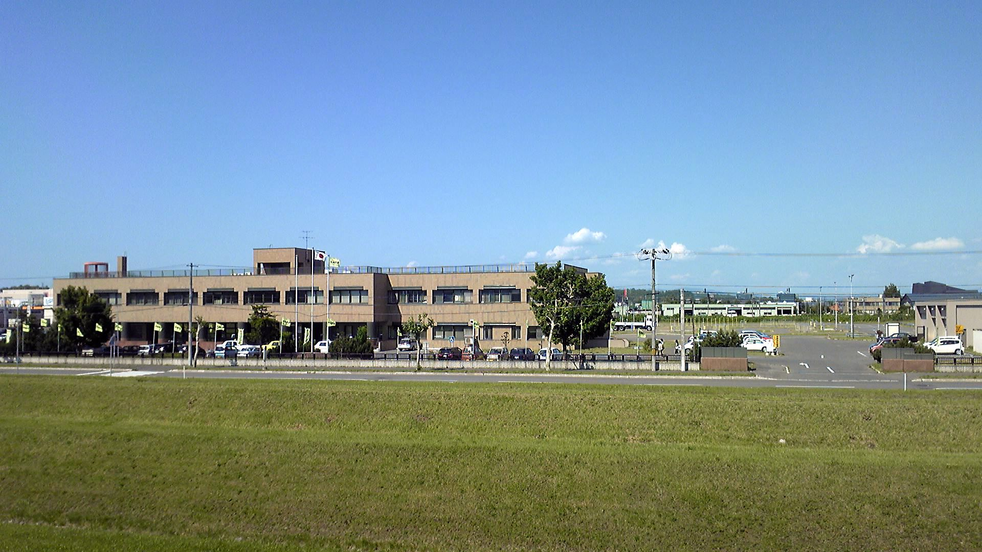 Asahikawa driver's license examination hall, in Hokkaido, Japan